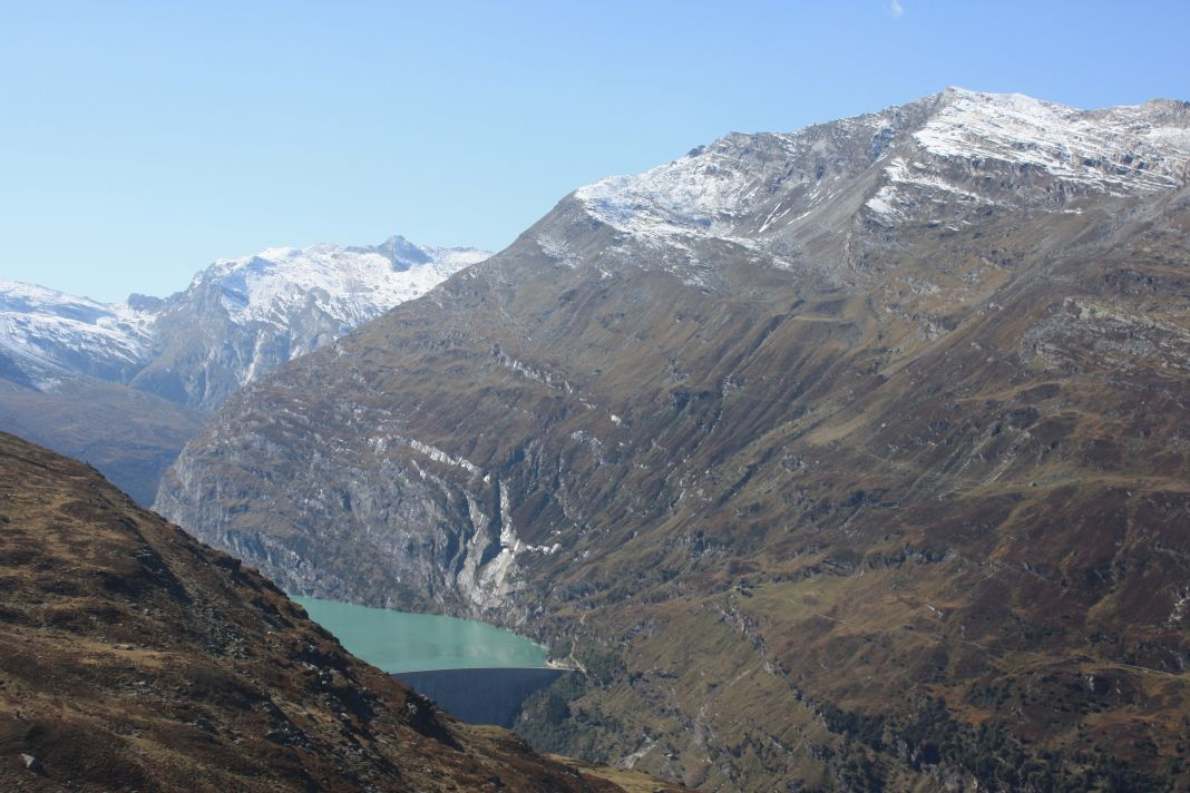 Lake Zervreila with dam from Ampervreilalp (NE); Pizzo di Cassimoi (3129m) far left